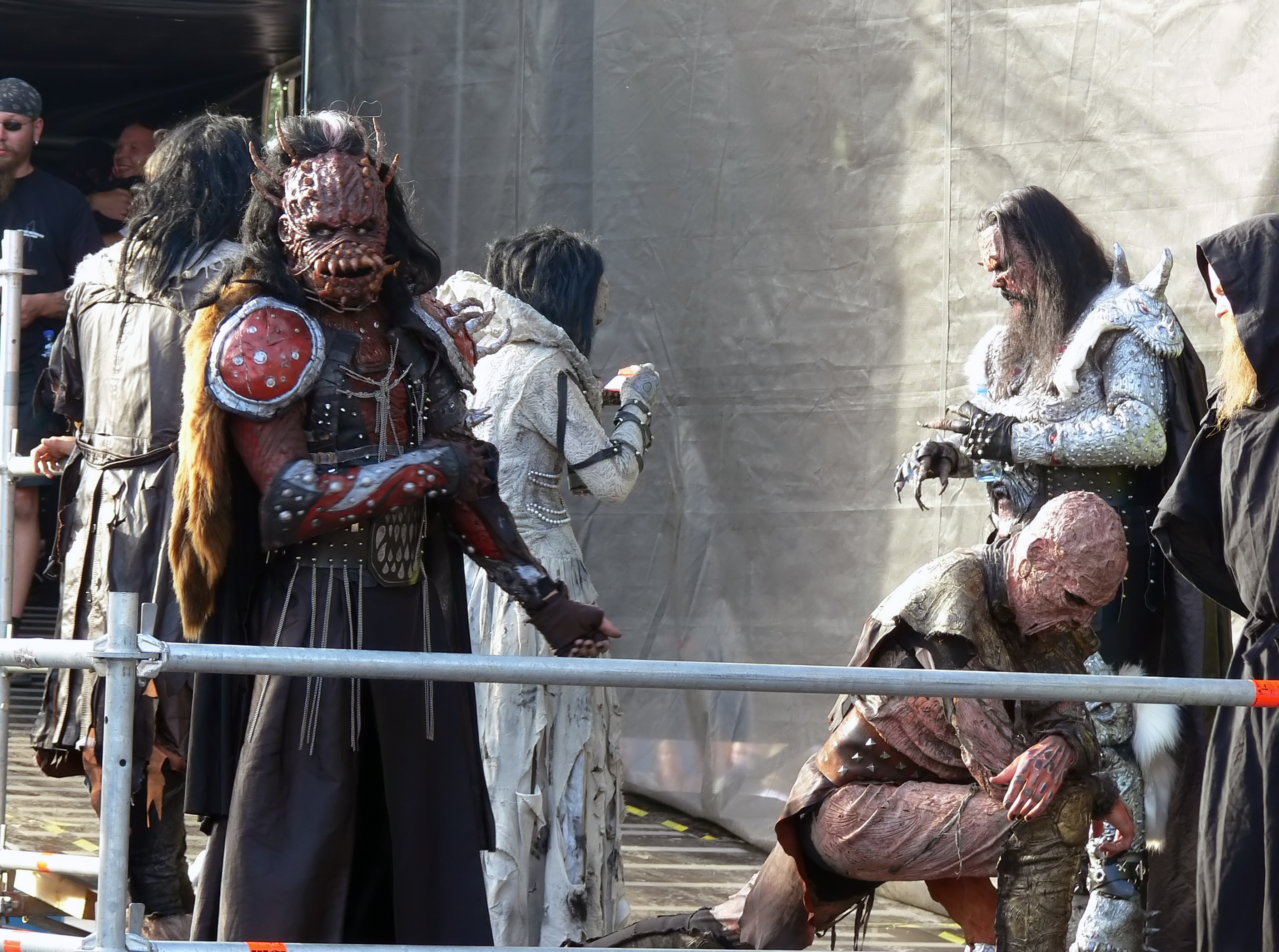 The Finnish hard rock band Lordi, behind a stage, getting ready for a concert.